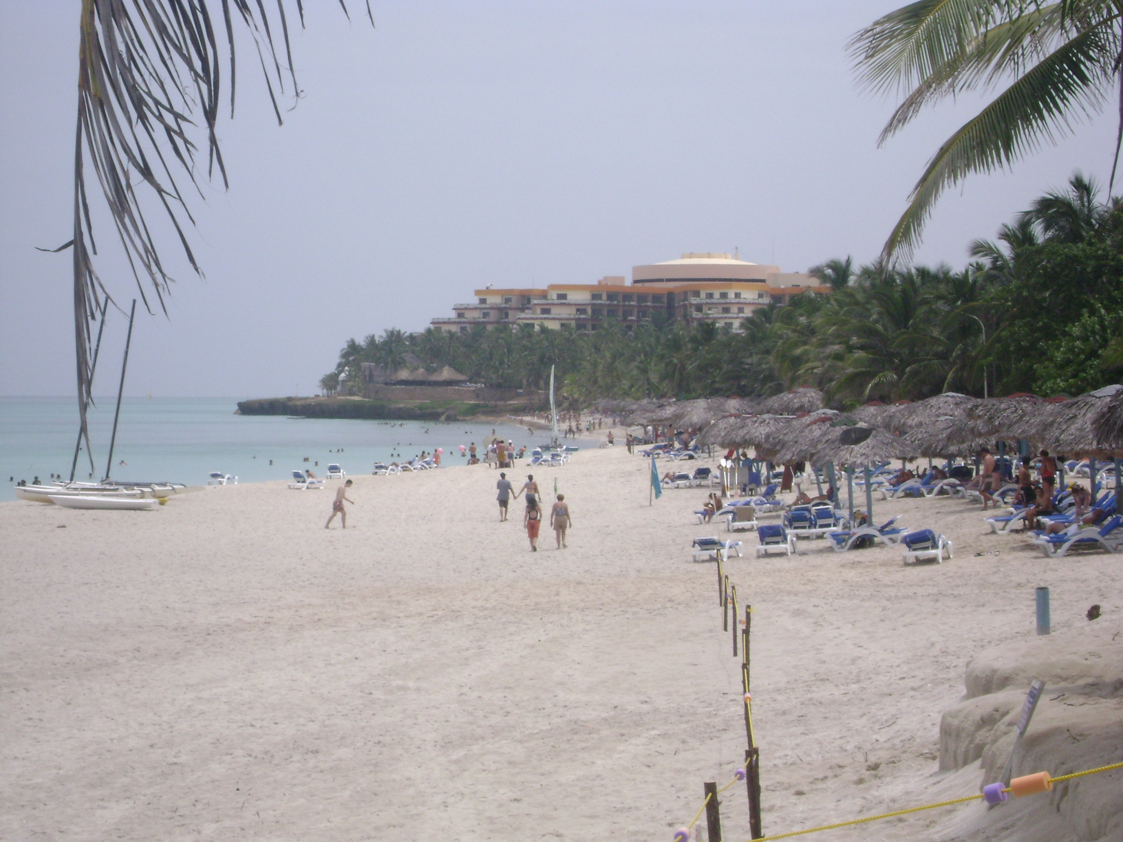 Zona junto a la Casa Dupont.